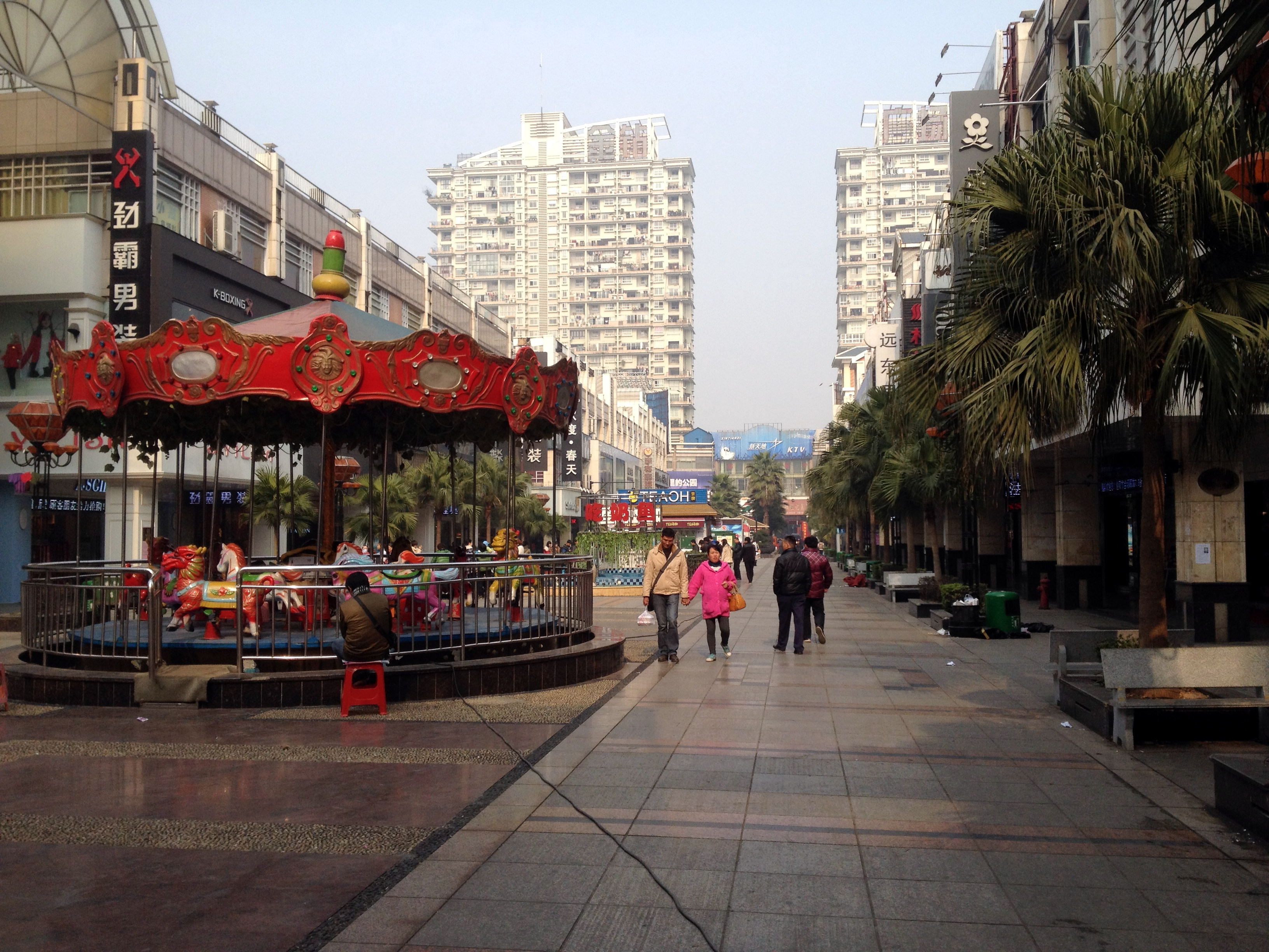 Photograph of Changde walking street (步行街), a central fixture of downtown Changde.